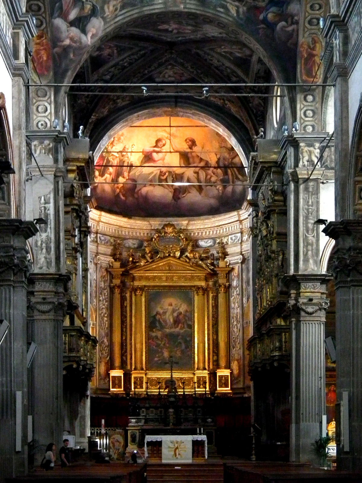 San Giovanni Evangelista Native nameAbbazia di San Giovanni EvangelistaLocationParmaCoordinates44° 48′ 10″ N, 10° 19′ 57″ E Established1510Authority control : Q3603222 VIAF: 125586873 ISNI: 0000 0001 2152 0732 institution QS:P195,Q3603222